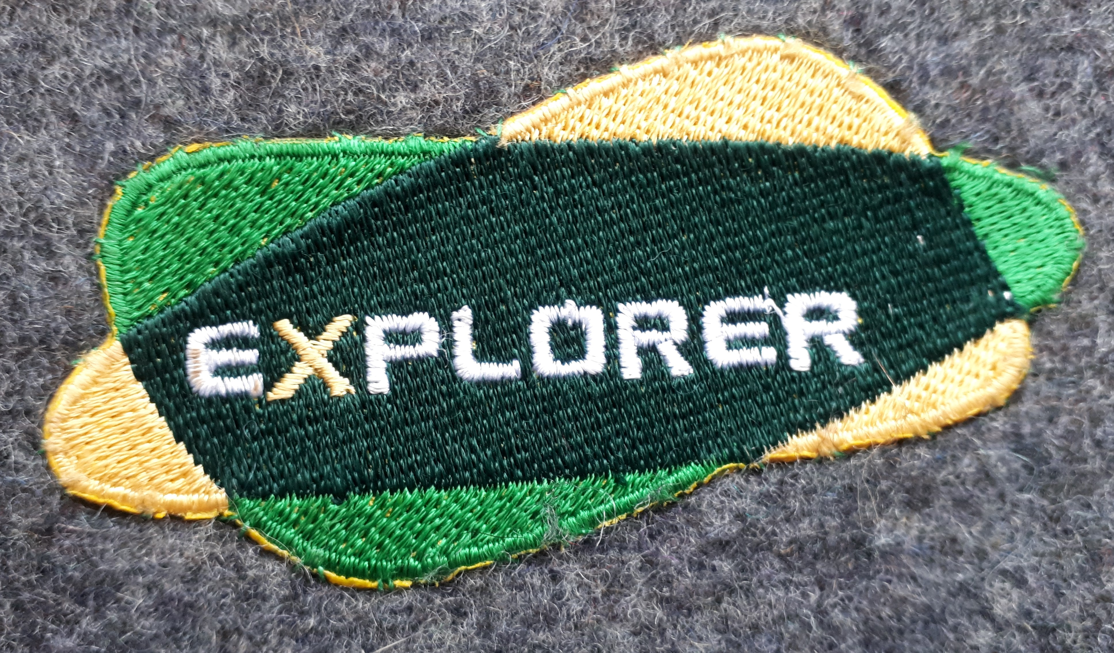 An embroidered badge for use on a camp blanket or uniform showing the logo of the Explorer Scout section in the UK as used between 2002 and 2015.